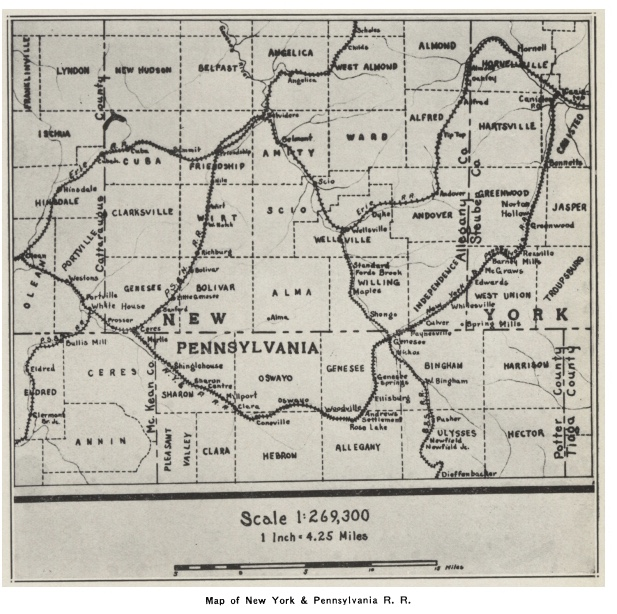 A map which shows the route and junctions of the New York and Pennsylvania Railroad